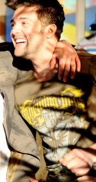 Johnny Bananas and CT at the Real World Bash